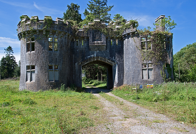 Abandoned Gatehouse, Castlelohort Demesne This twin towered gatehouse leading to Lohort Castle, may have been constructed at the time the castle was renovated during the 1740s. It has a coat of arms over the entrance.